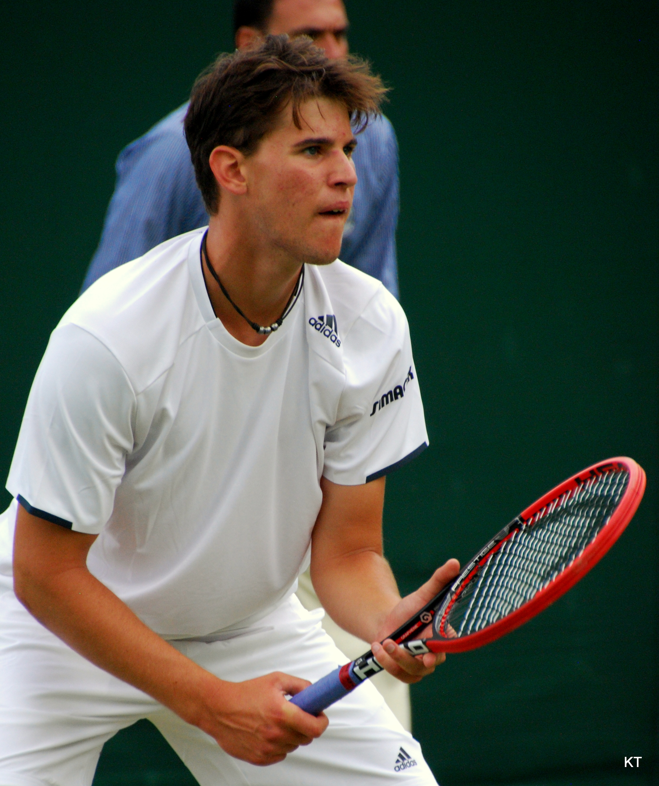 Dominic Thiem